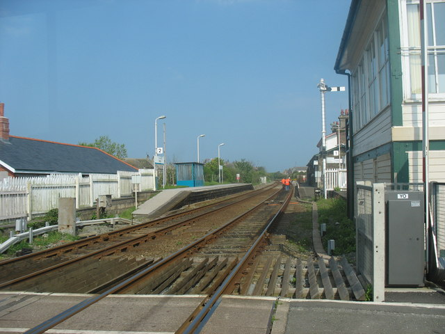 Valley Station from the level crossing